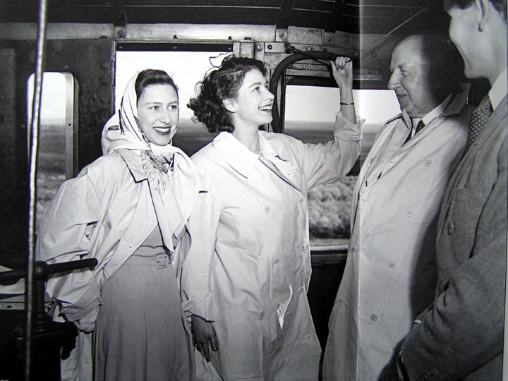 SAR Class GEA 4024 (4-8-2+2-8-4) Princesses on the footplate during the 1947 Royal Visit to South Africa. Everybody loves a steam whistle!